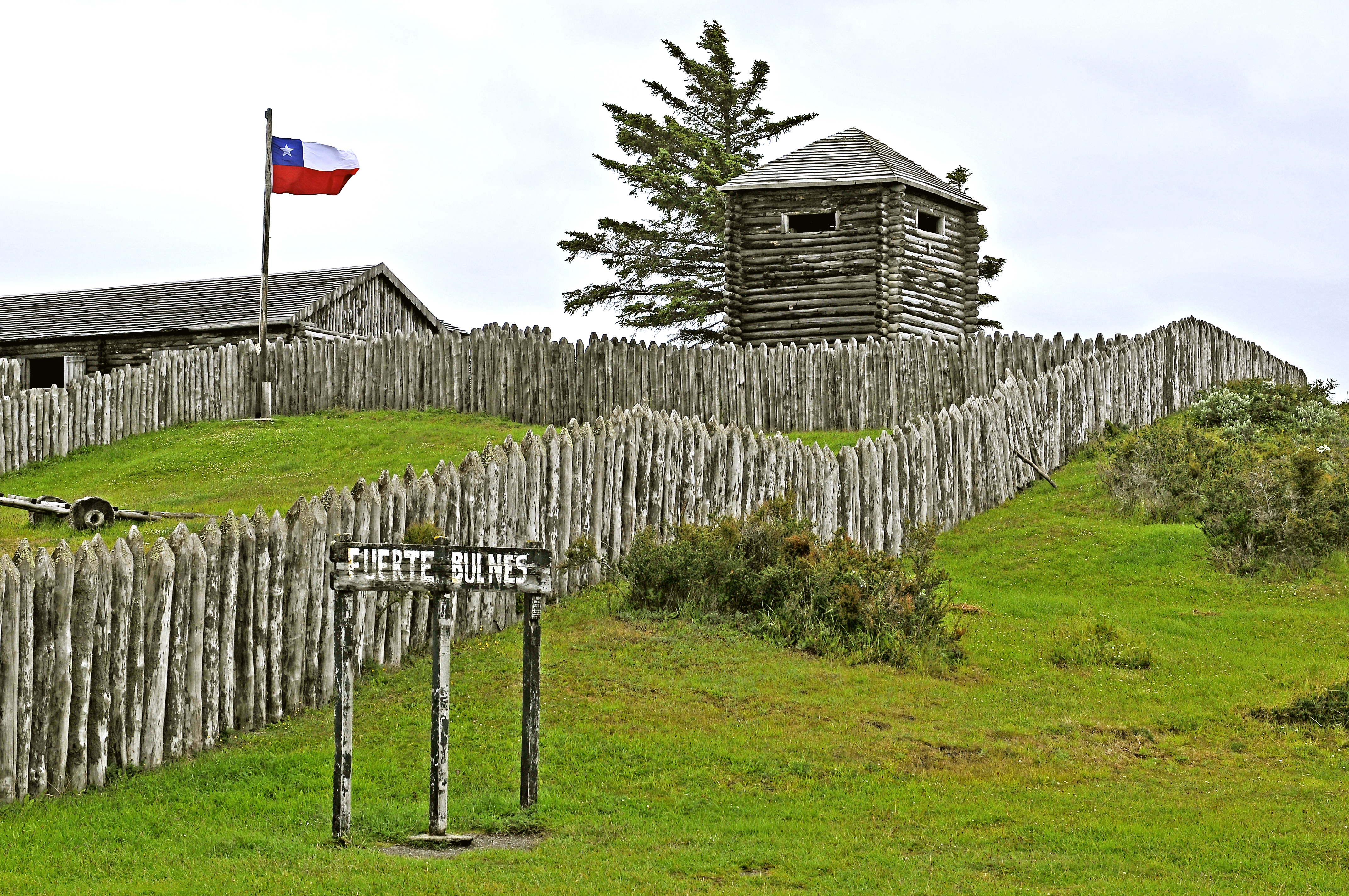 Bulnes Fort. Punta Arenas, Magallanes, Chile